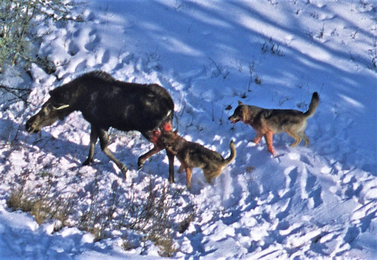 Two wolves attack a moose at Isle Royale, Michigan, United States.